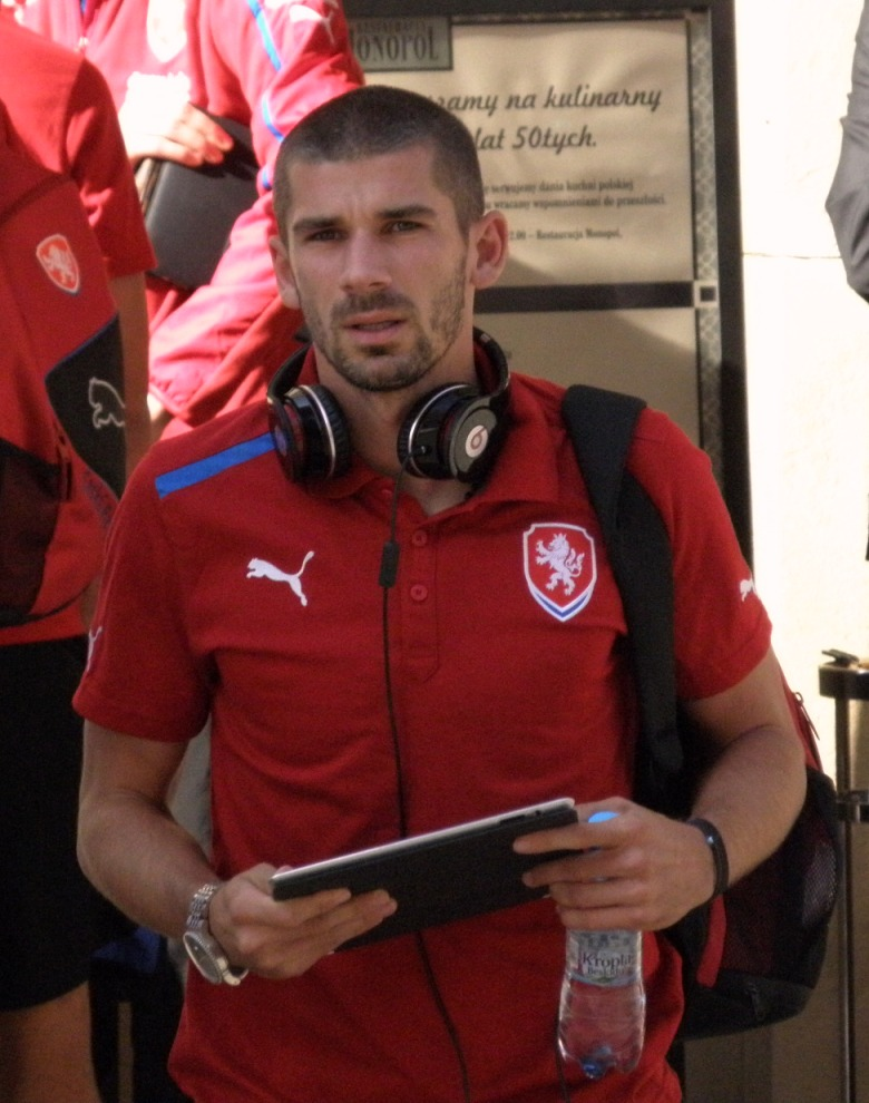 Jan Rezek in front of the Monopol hotel in Wroclaw